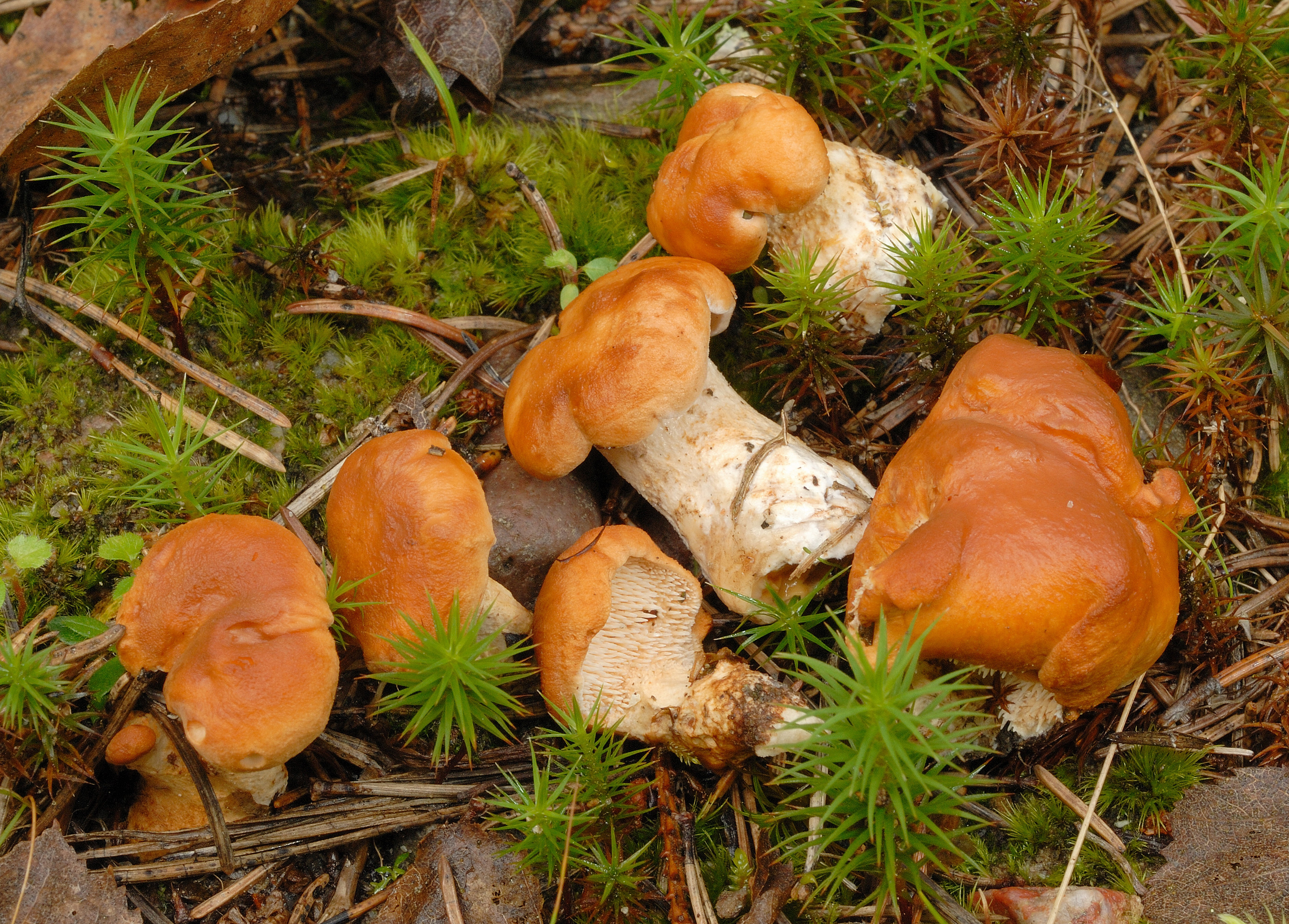 The making of this document was supported by the Community-Budget of Wikimedia Germany.